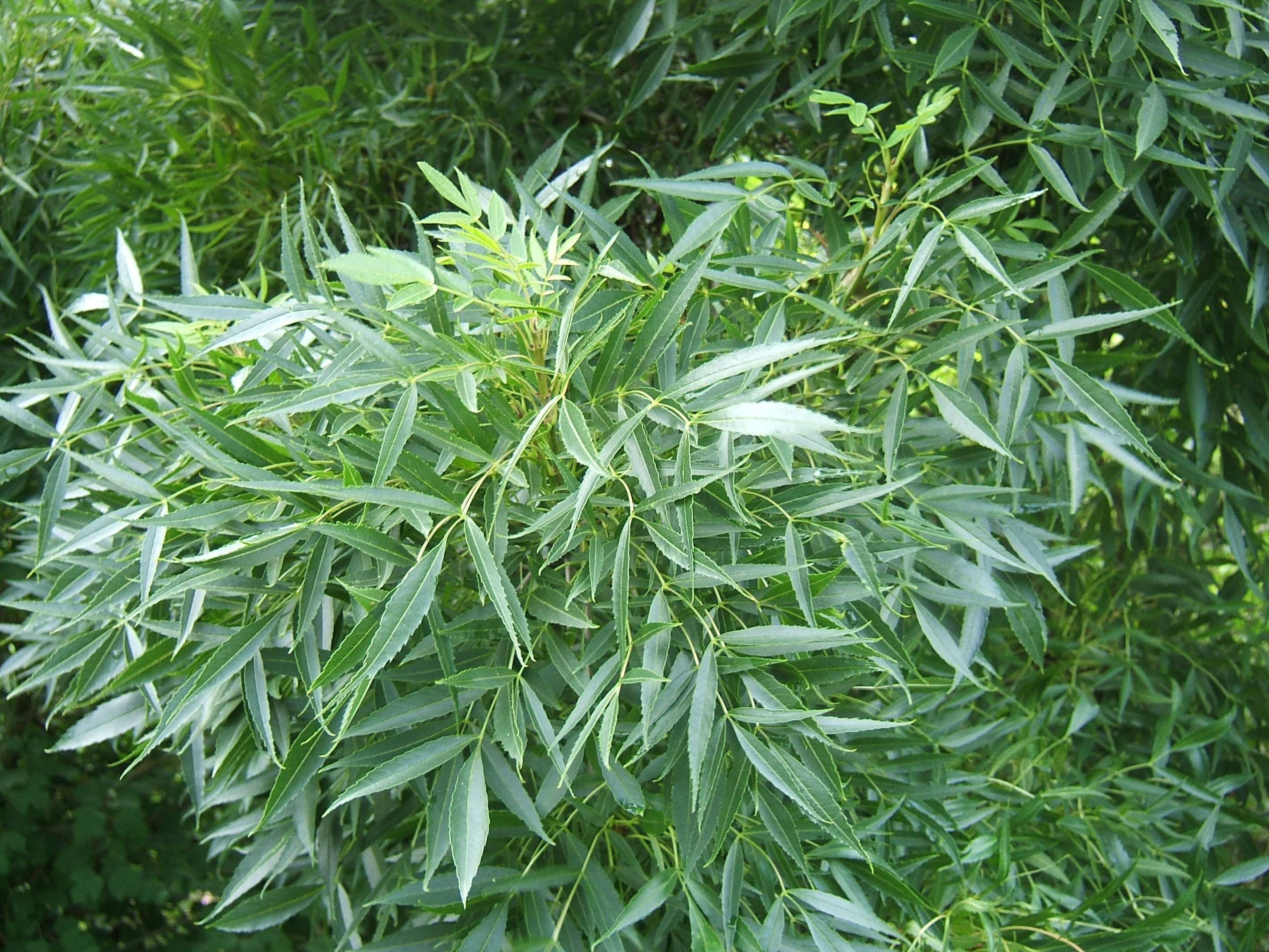 Fraxinus angustifolia, foliage of cultivar 'Raywood'; planted, Northumberland, UK; 20 August 2006